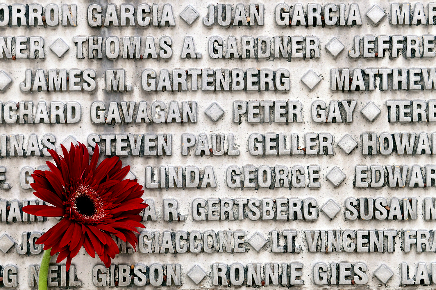 American Embassy Tel Aviv joined Keren Kayemed L'Yisrael and Jewish National Fund-USA in observing the 15th anniversary of the 9/11 terror attacks in the U.S. Over 500 participants gathered for the ceremony at the 9/11 Living Memorial in the Emek Arazim Valley near Jerusalem. Israeli government officials, over 30 foreign diplomats, members of bereaved families, the U.S. Police Unity Tour delegation, Israel Firefighters and Rescue, Israel National Police and representatives of first-responder organizations all attended. Addressing his remarks particularly to the 150-member Young Judea group who also attended, U.S. Ambassador Daniel Shapiro said, "This year, our remembrances mark the transition of 9/11 from living memory to history. A young person on the cusp of adulthood today has no personal memory of 9/11. The obligation falls on us to teach them, and on them to learn -- both about the great sadness, pain, and loss, but also the inspiring stories of heroism, courage and generosity around those events." Jerusalem